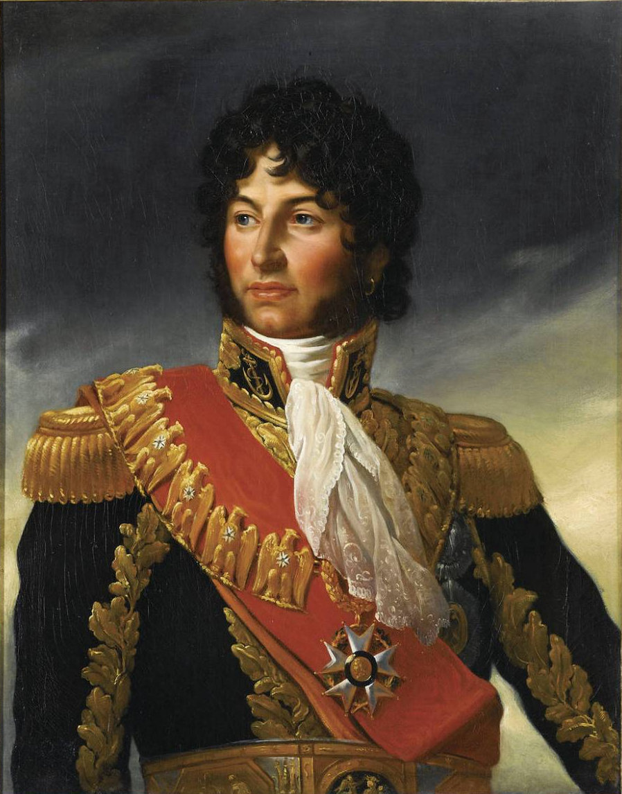 Joachim Murat (1767-1815), represented in 1805, in uniform of Admiral of the Empire